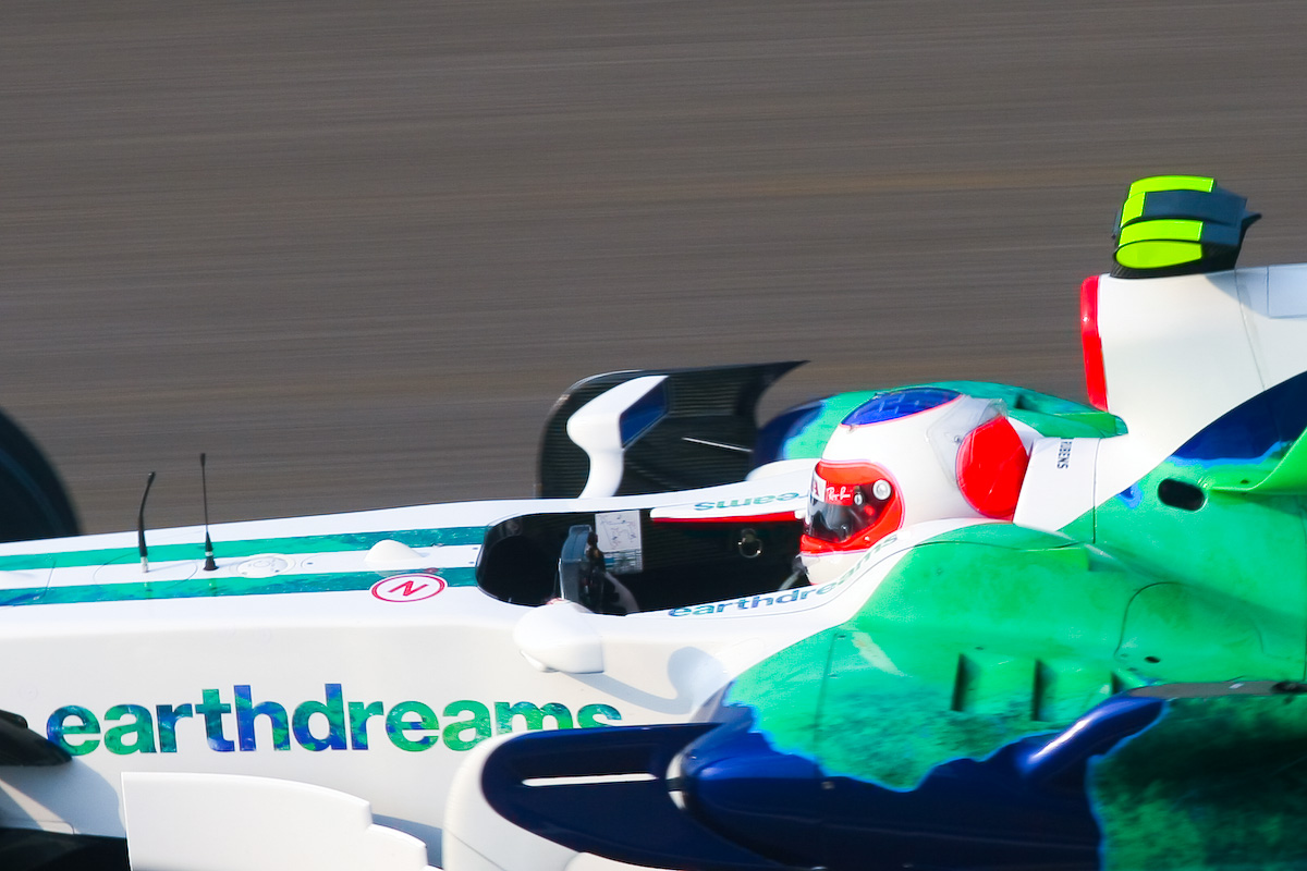 Rubens Barrichello driving for Honda F1 at the 2008 Chinese Grand Prix.